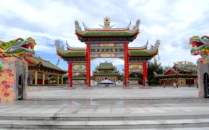 Yu Long Temple